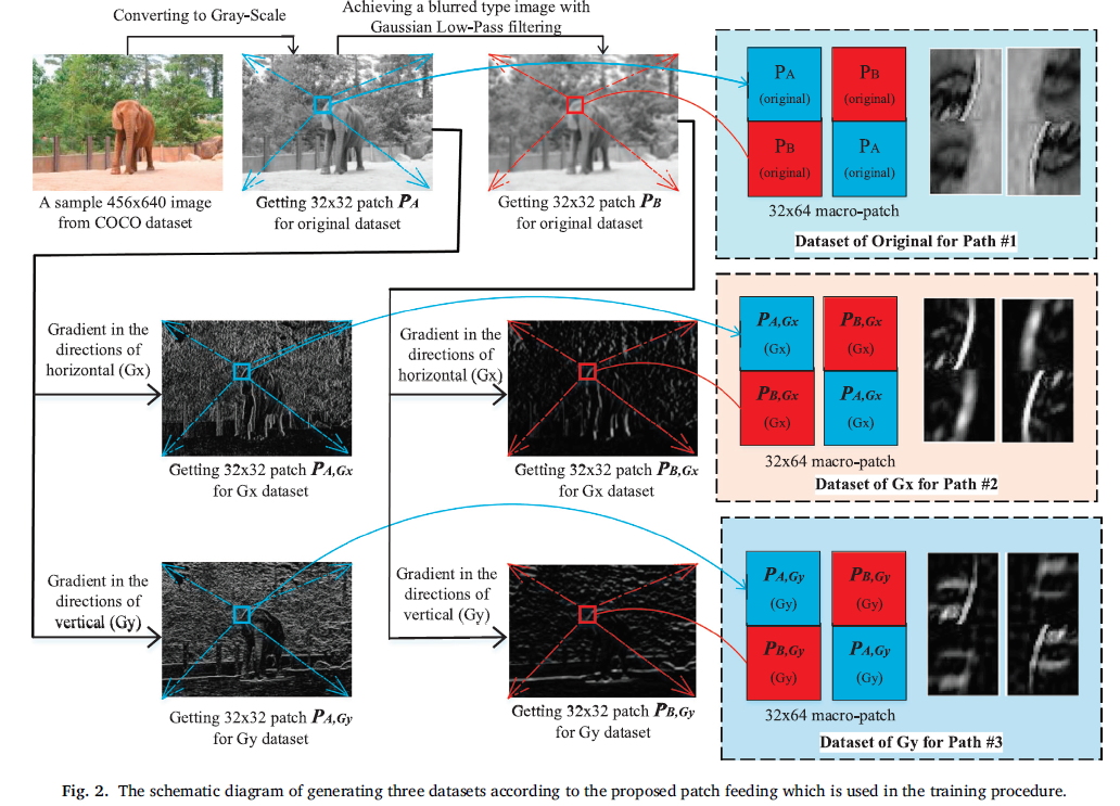 The schematic diagram of generating three datasets according to the proposed patch feeding which is used in the training procedure of ECNN